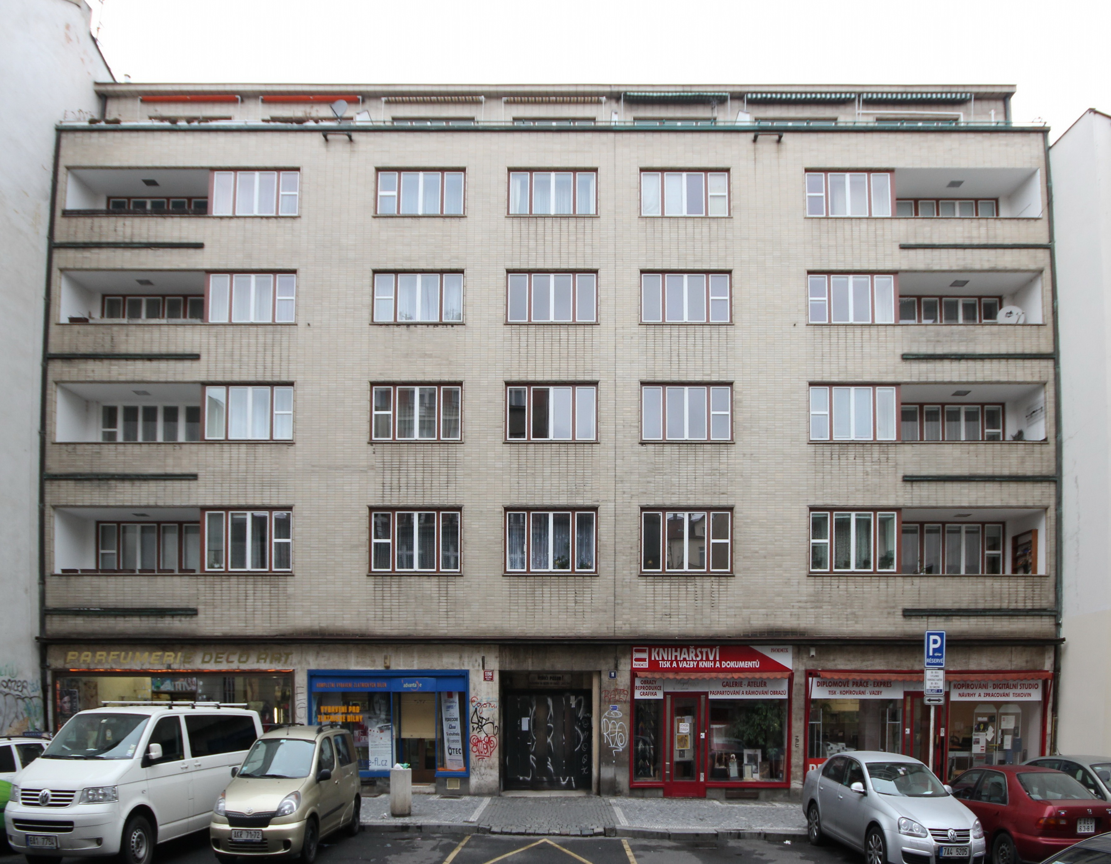 Erwin Katona:Rental house No. 1196, Praha 1-Nové Město, Soukenická 11.